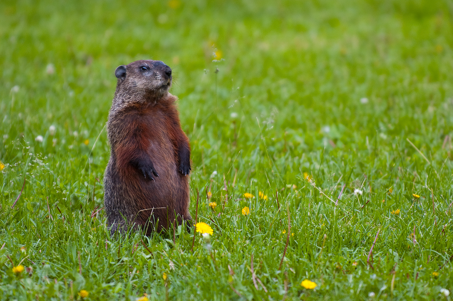 Replaces Image:Groundhog Standing1.jpg, which, although of a higher resolution, is at a much poorer angle. Shot near the Mississippi River, in Minneapolis, Minnesota. Copyright © 2004 by April King, aka Marumari, donated to Wikipedia under the GFDL. Original gallery shot available here: Groundhog Standing.